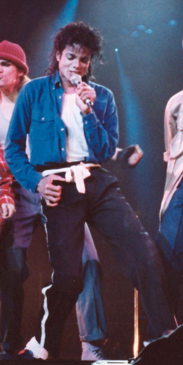 Michael Jackson performing The Way You Make Me Feel in 1988